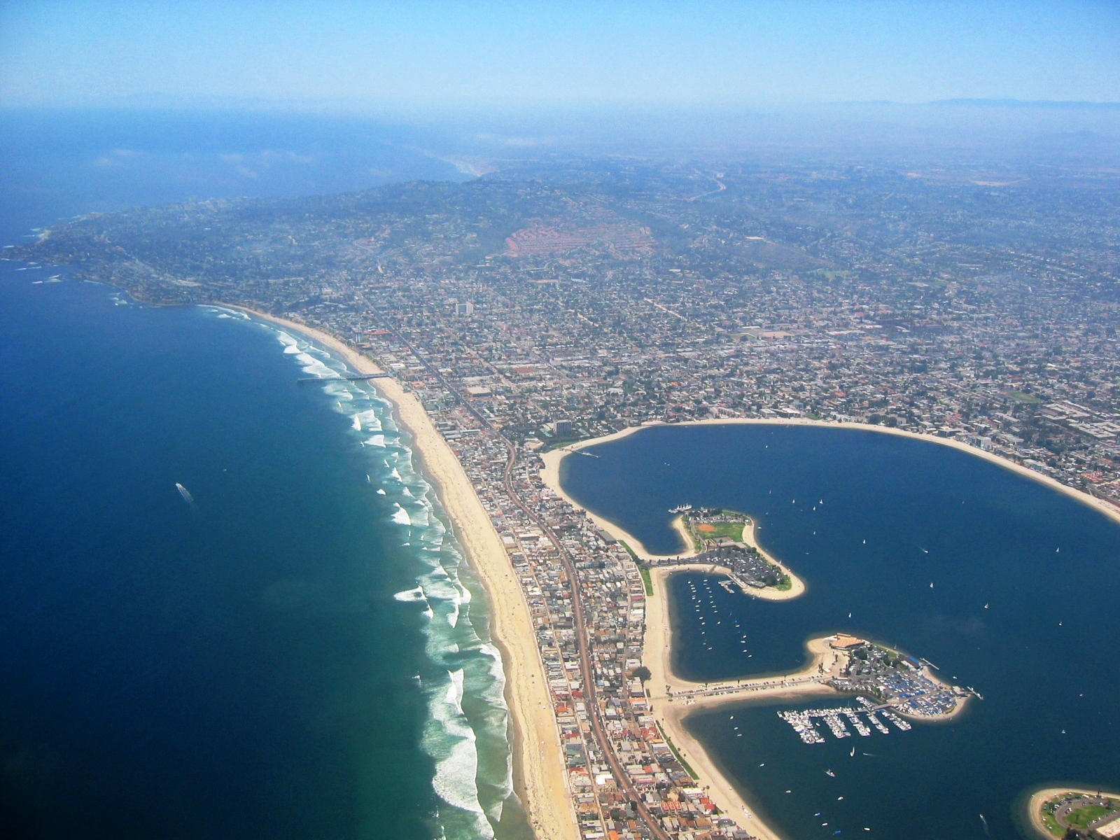 Seaside communities of northern San Diego, California. Top background to bottom foreground (north to south): La Jolla, Mission Beach, and Pacific Beach (with Crystal Pier); lower right: Mission Bay